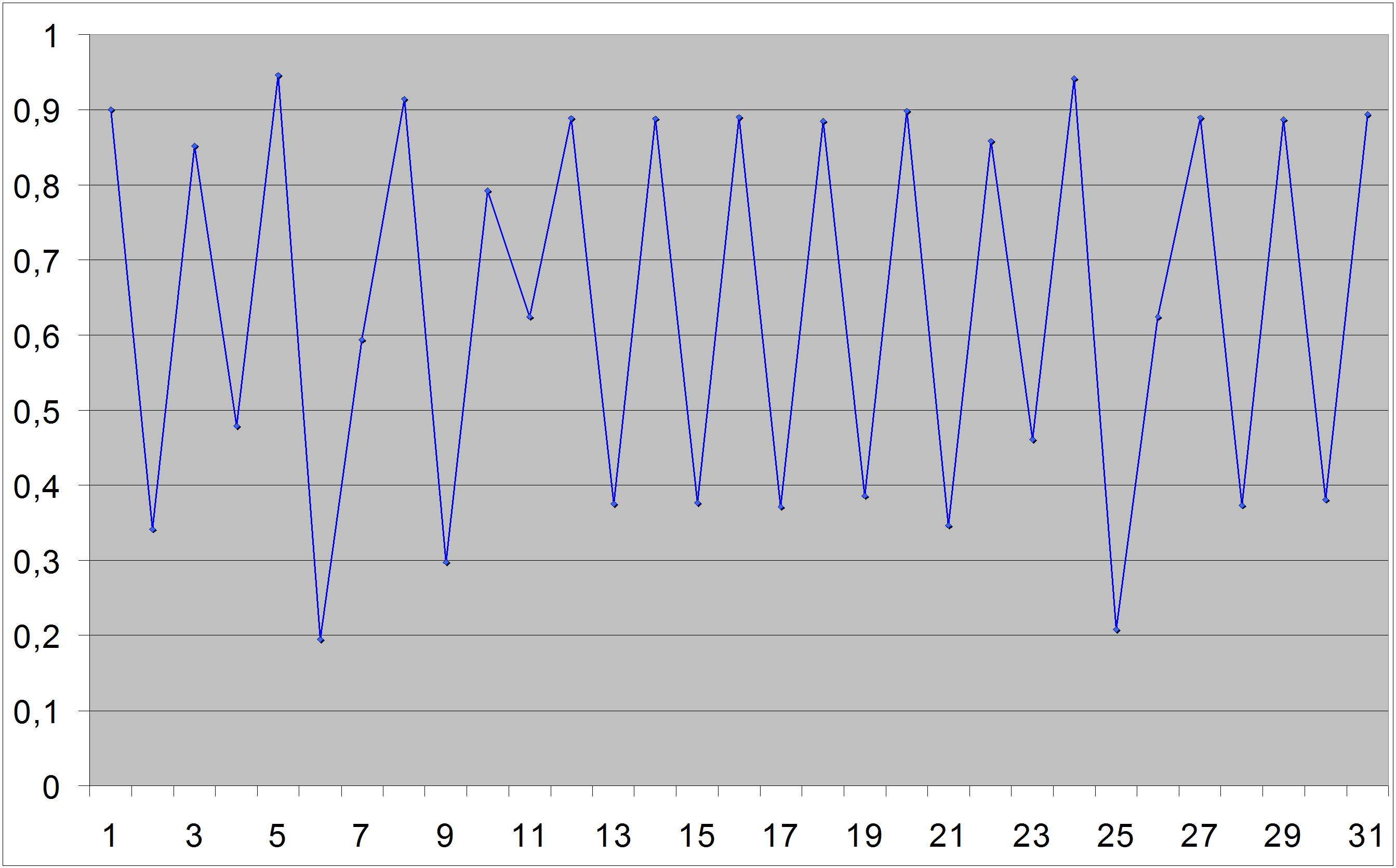 Graph that shows solutions of a function when r equals 3.79 for n=0 to 31. It is clear that the function gives completely random result for every n.